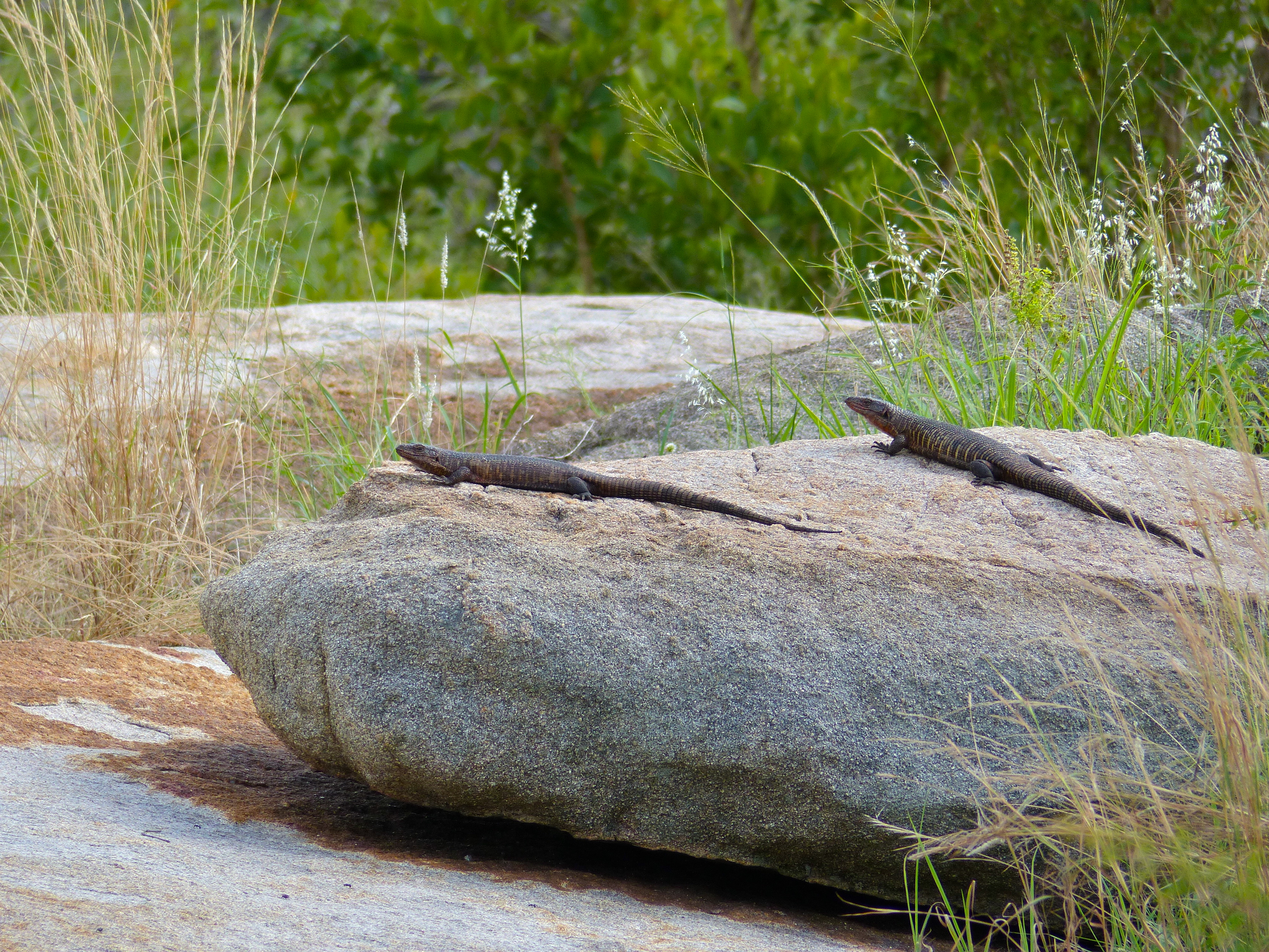 H1-2 Road North of Skukuza, Kruger NP, SOUTH AFRICA